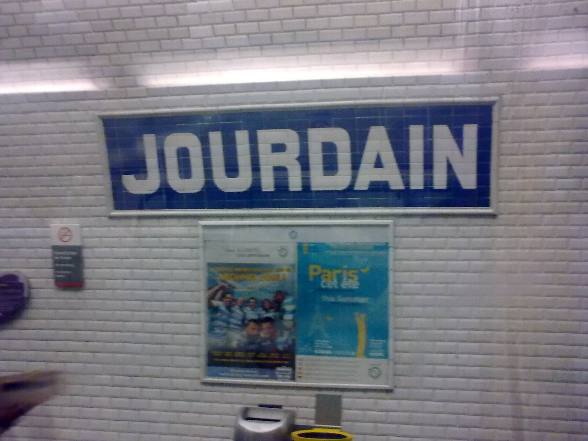 plaque du station de metro Jourdain en Paris (ligne 11)